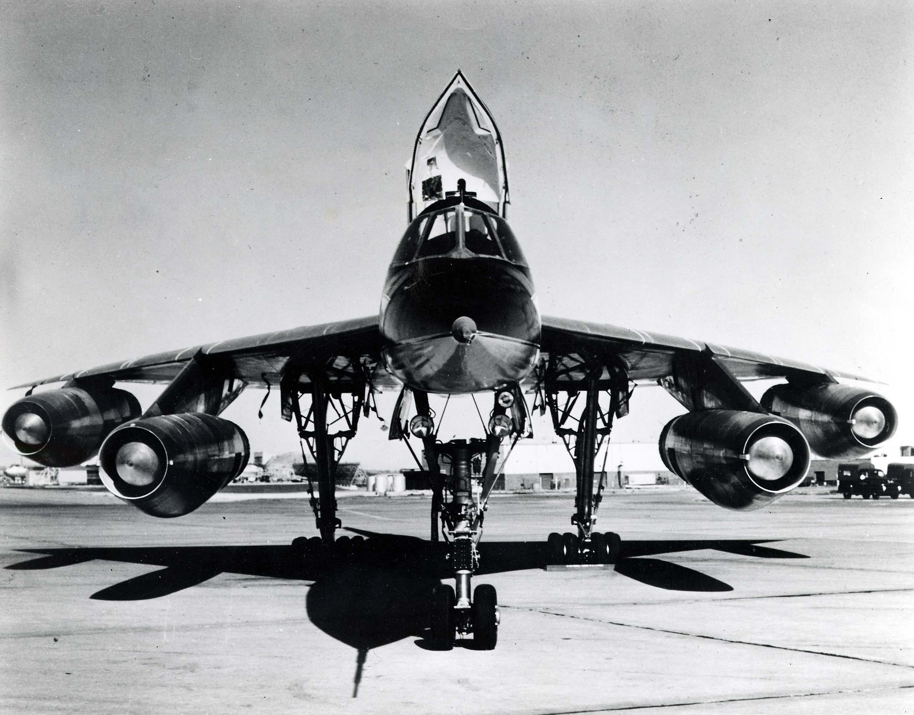 Convair B-58A Hustler front view